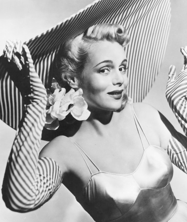 Publicity photo of actress Marie Wilson.